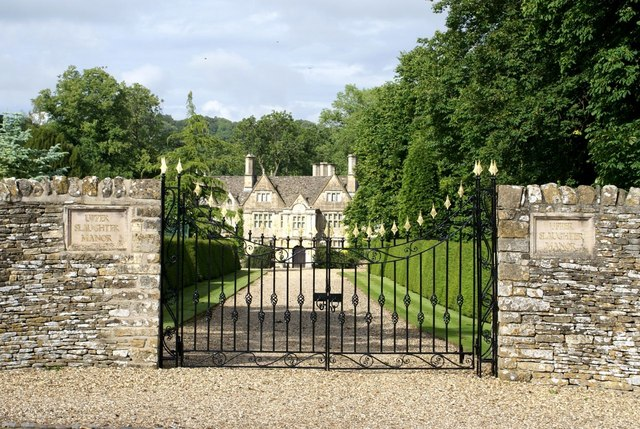 Upper Slaughter Manor In 1086 Upper Slaughter was held as a manorial estate by Roger de Lacy and his mother. The current buildings date from the late medieval period with additions made in the Tudor period. It is now a hotel.